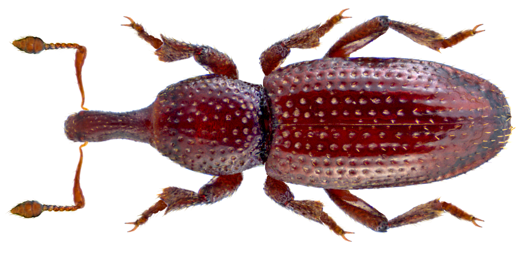 Family: Curculionidae Size: 2,5 mm Origin: Europe Ecology: subterranean life Location: England, Sussex, Haywards Heath leg. R.T.Thompson, 1997-1998; det. Barclay, 2000 Coll. Oxford University Museum of Natural History Photo: U.Schmidt, 2014